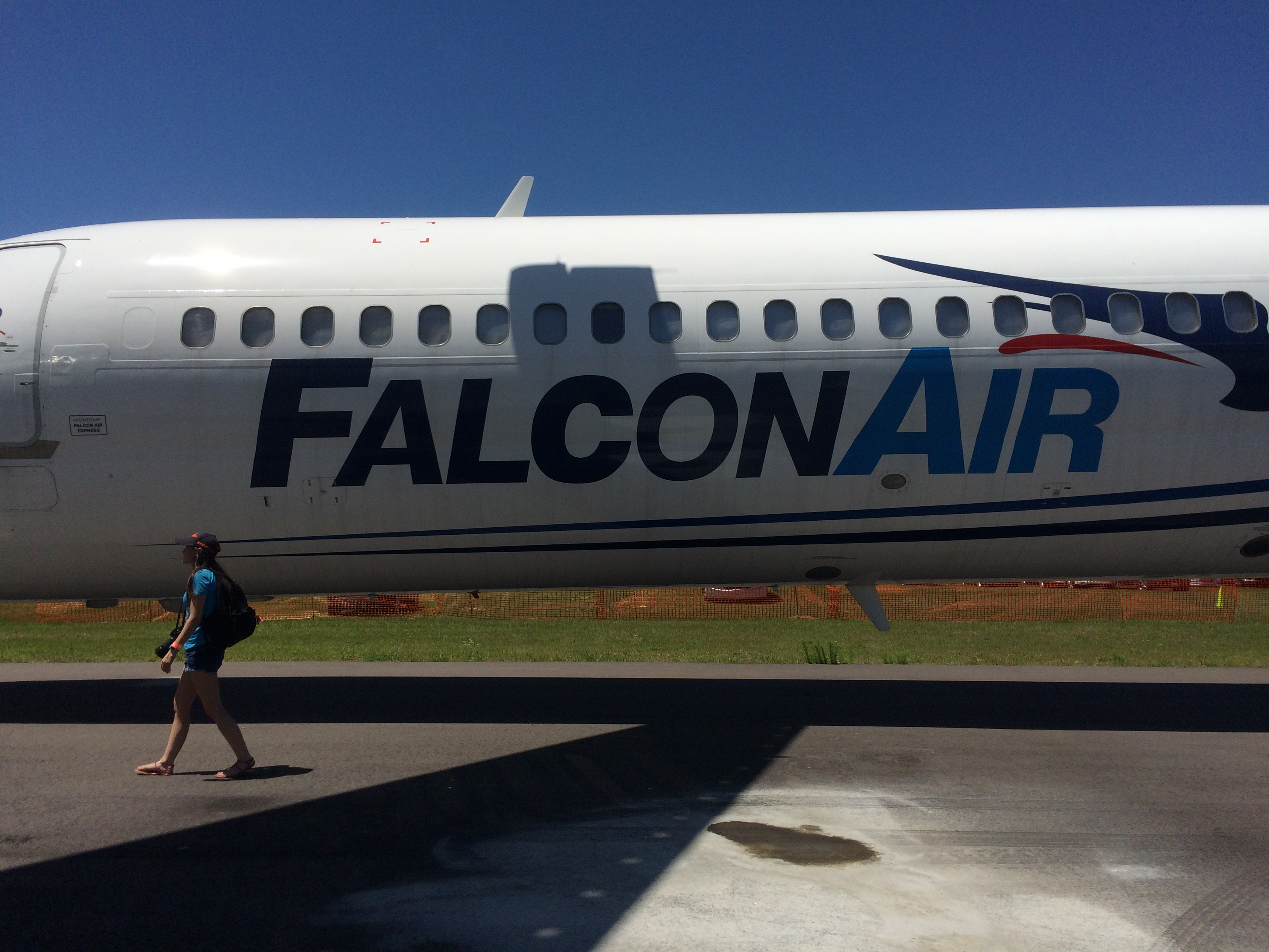 Side view of the Falcon Air Express MD-83 at the Lakeland Linder Regional Airport